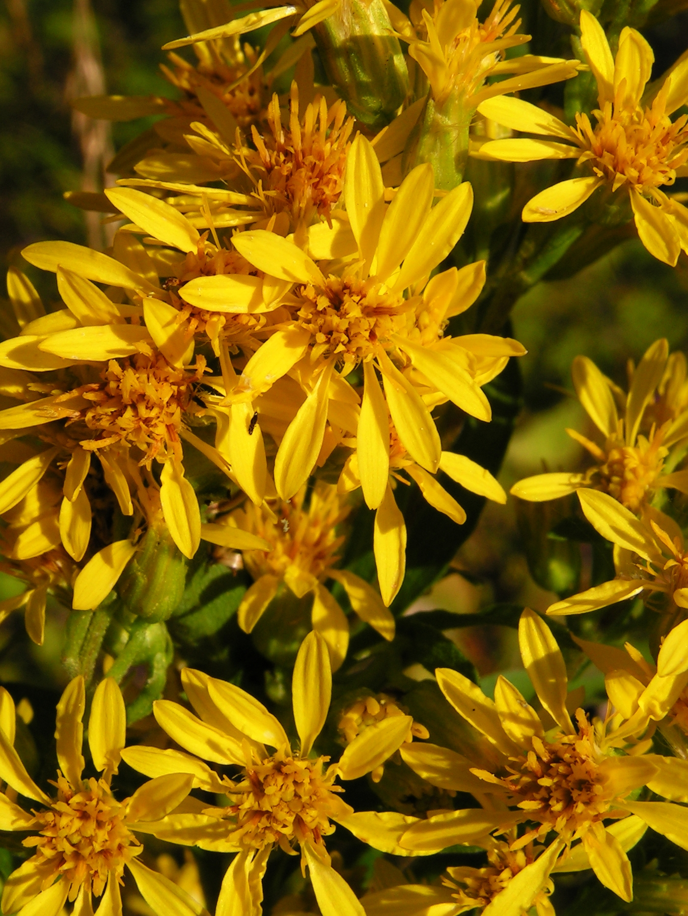 The inflorescence of Solidago virgaurea. Moscow region, Russia.